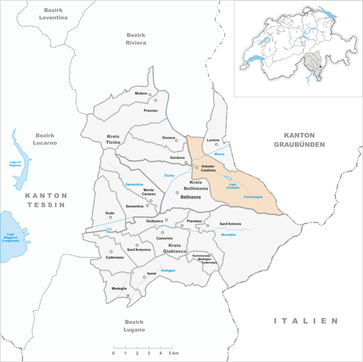 Municipality Arbedo-Castione